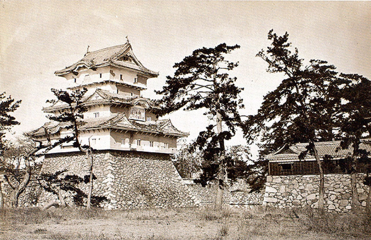 Main tower of Takamatsu castle, December 30, 1882. It was taken by a Japanese photographer when came to Japan who Britain traveler Francis Henry Hill Gilmarl on December 30, 1882.